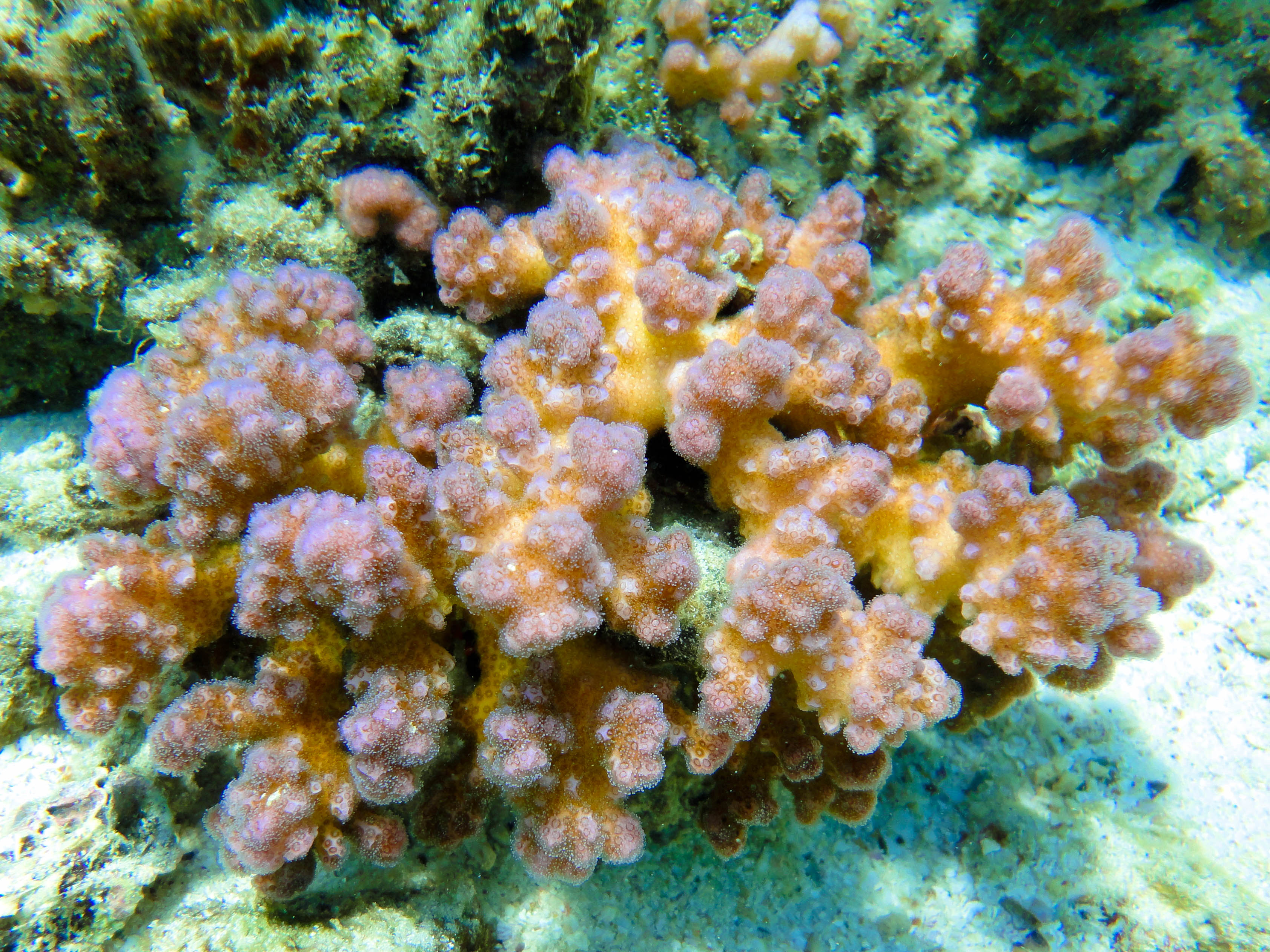 Coral, Ar Røl, Fujairah, UAE